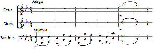 Opening notes of Haydn's Symphony No. 103, "The Drumroll". Image made using Sibelius software by Opus33. This music is in the public domain.